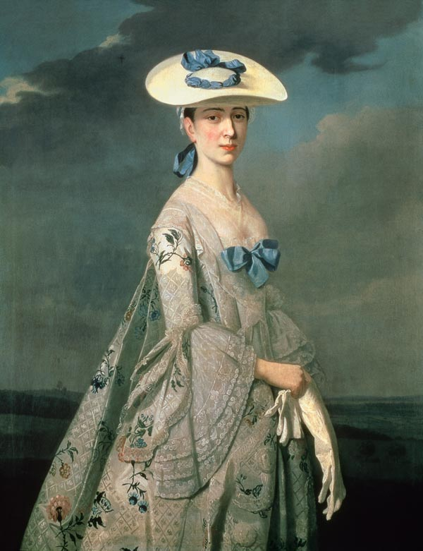 Eleanor wear a bergere hat and a brocaded silk dress with a sack back